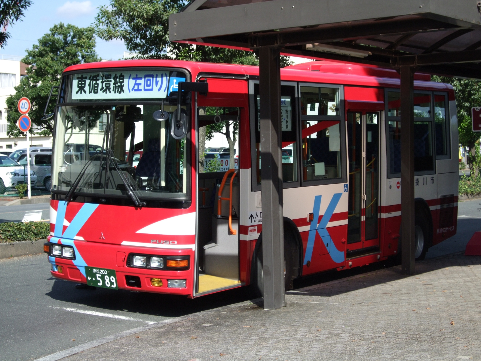 Kakegawa city community bus East loop line, at Kakegawa-eki-mae bus stop